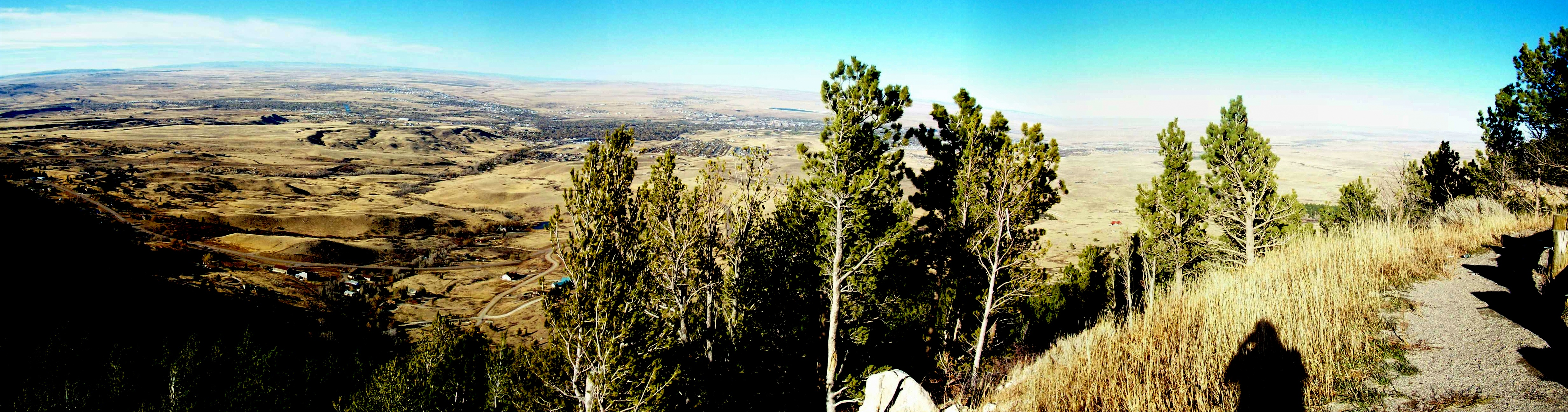 Casper, from Casper Mountain. November 2010. Also used on my radio tower website (